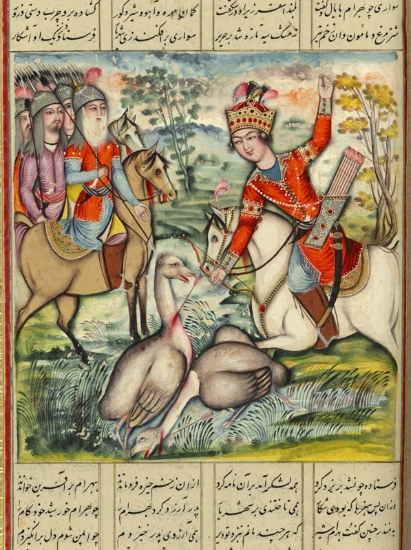 illumination from a manuscript of the Shahnameh epic, Folio 396, recto